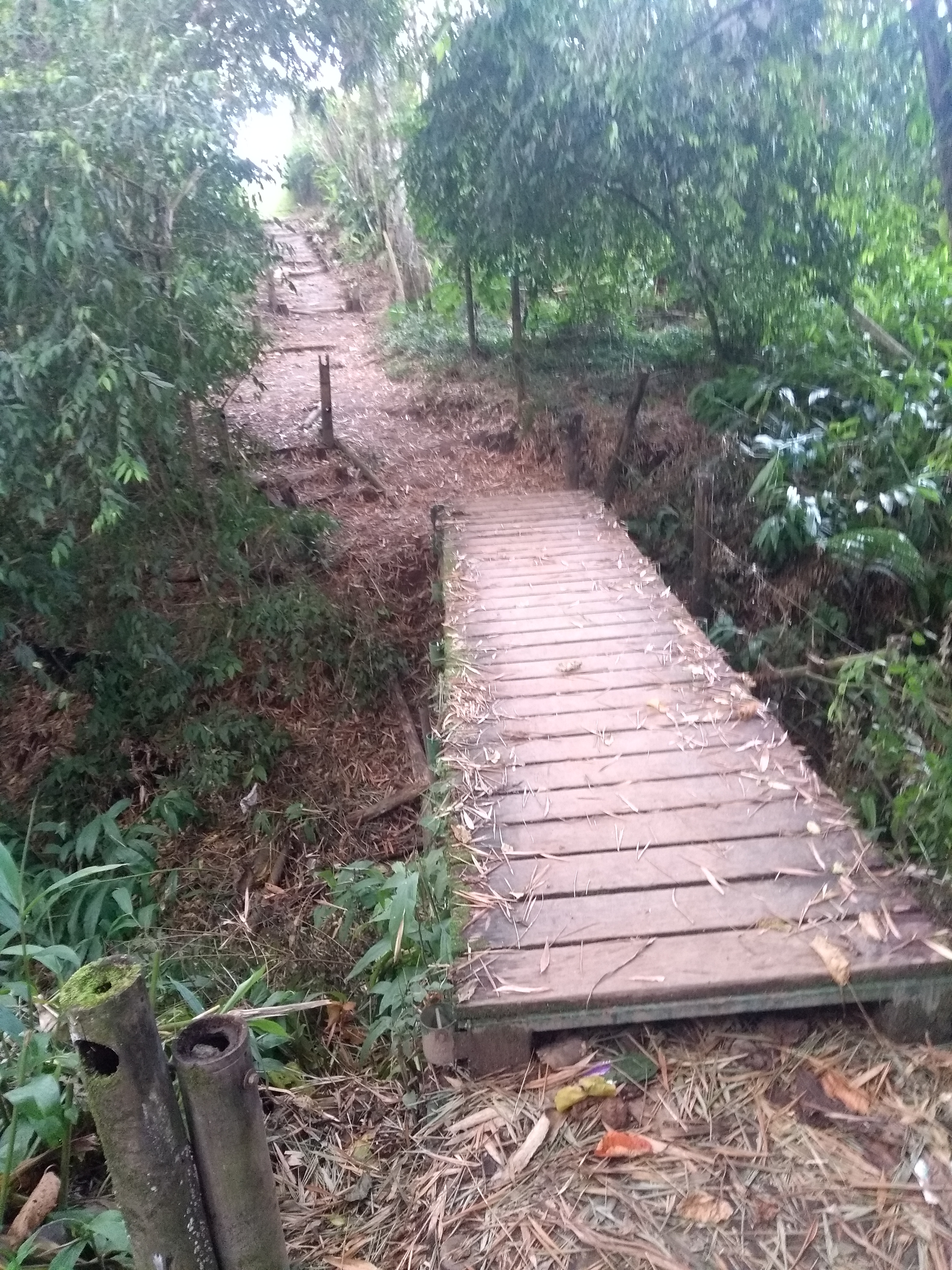 Nature in the town of filandia, quindio